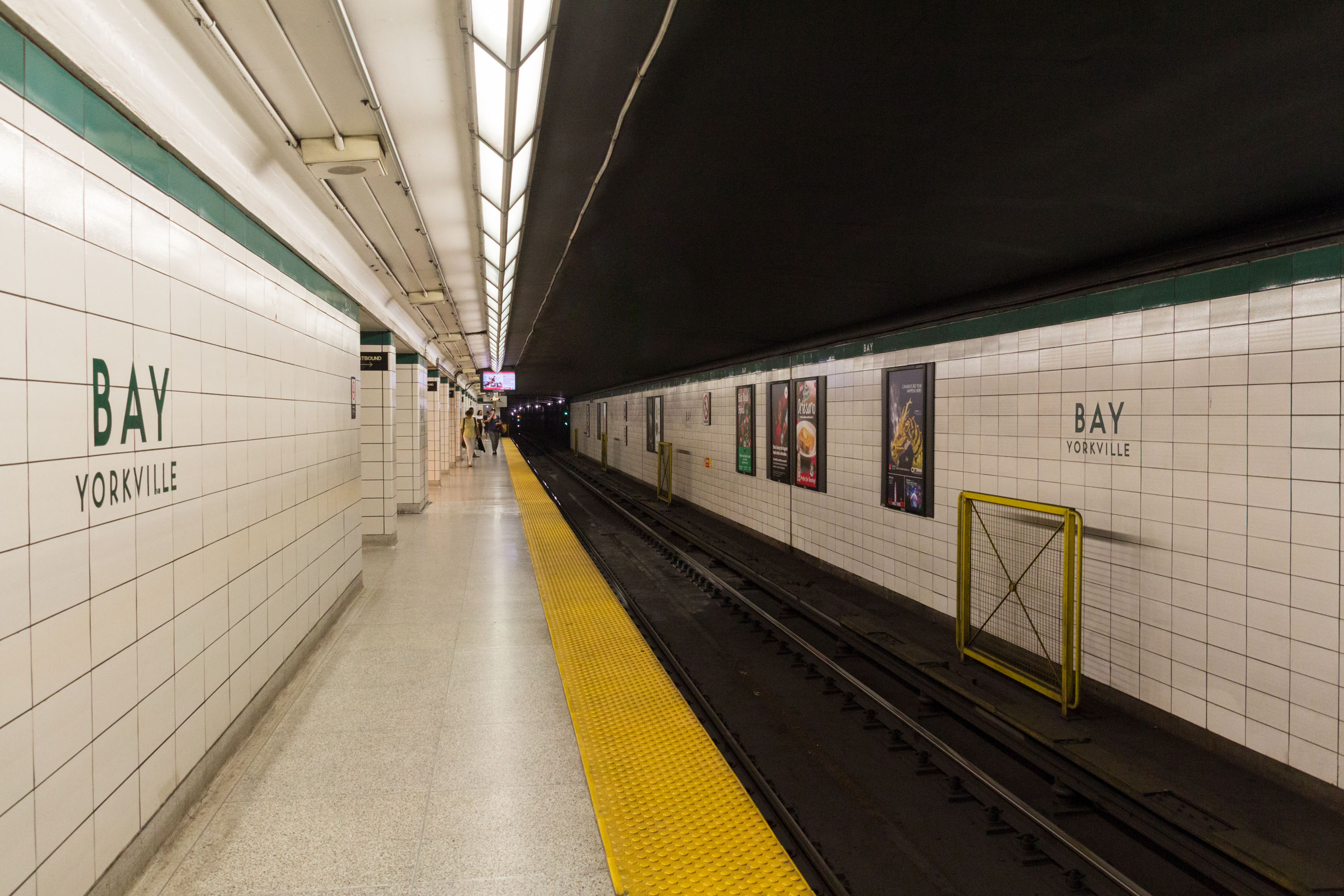 Bay (TTC) Eastbound Platform